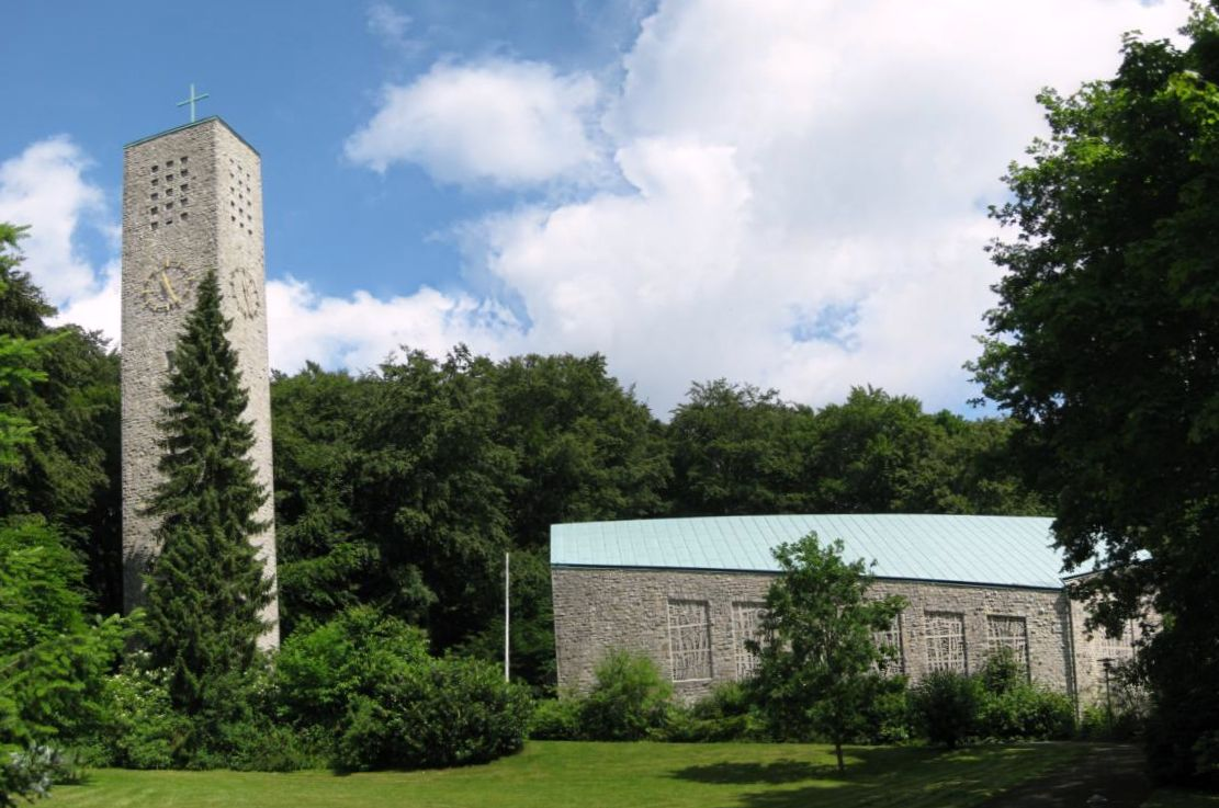 lutheran parish church Markuskirche in Bielefeld-Dornberg (Hoberge-Uerentrup)